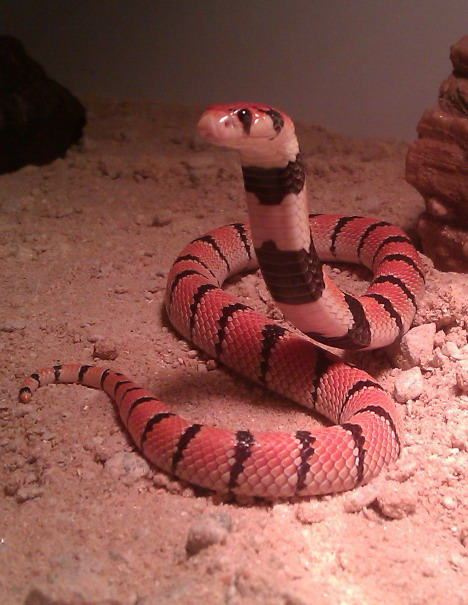 A juvenile male Cape Coral snake